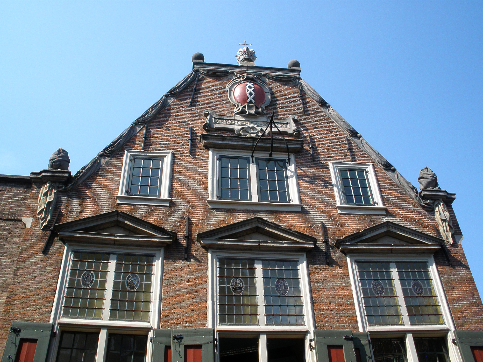 The Saaihal (1641) in the Staalstraat in Amsterdam, designed by Pieter de Keyser. The building is now used as a shop by Droog Design.